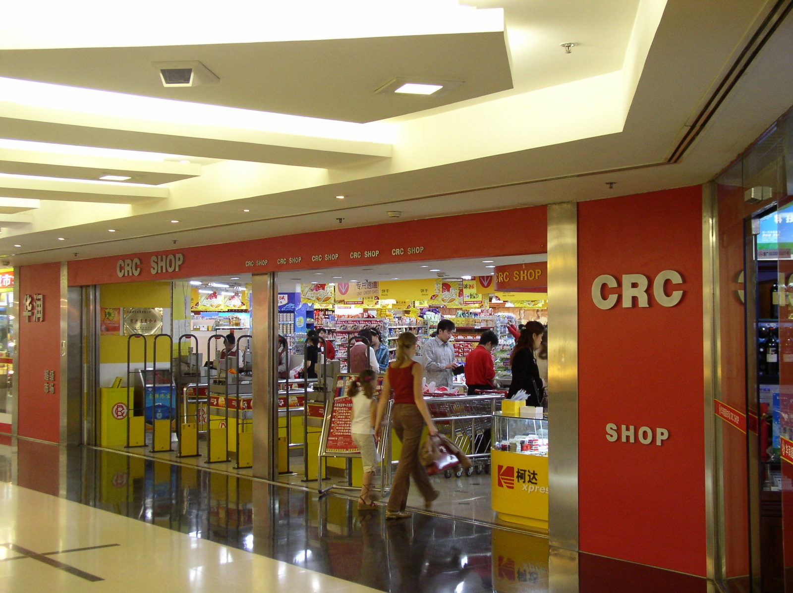 CRC Shop, China World Mall in the China World Trade Center - 2001 - Now branded "blt"